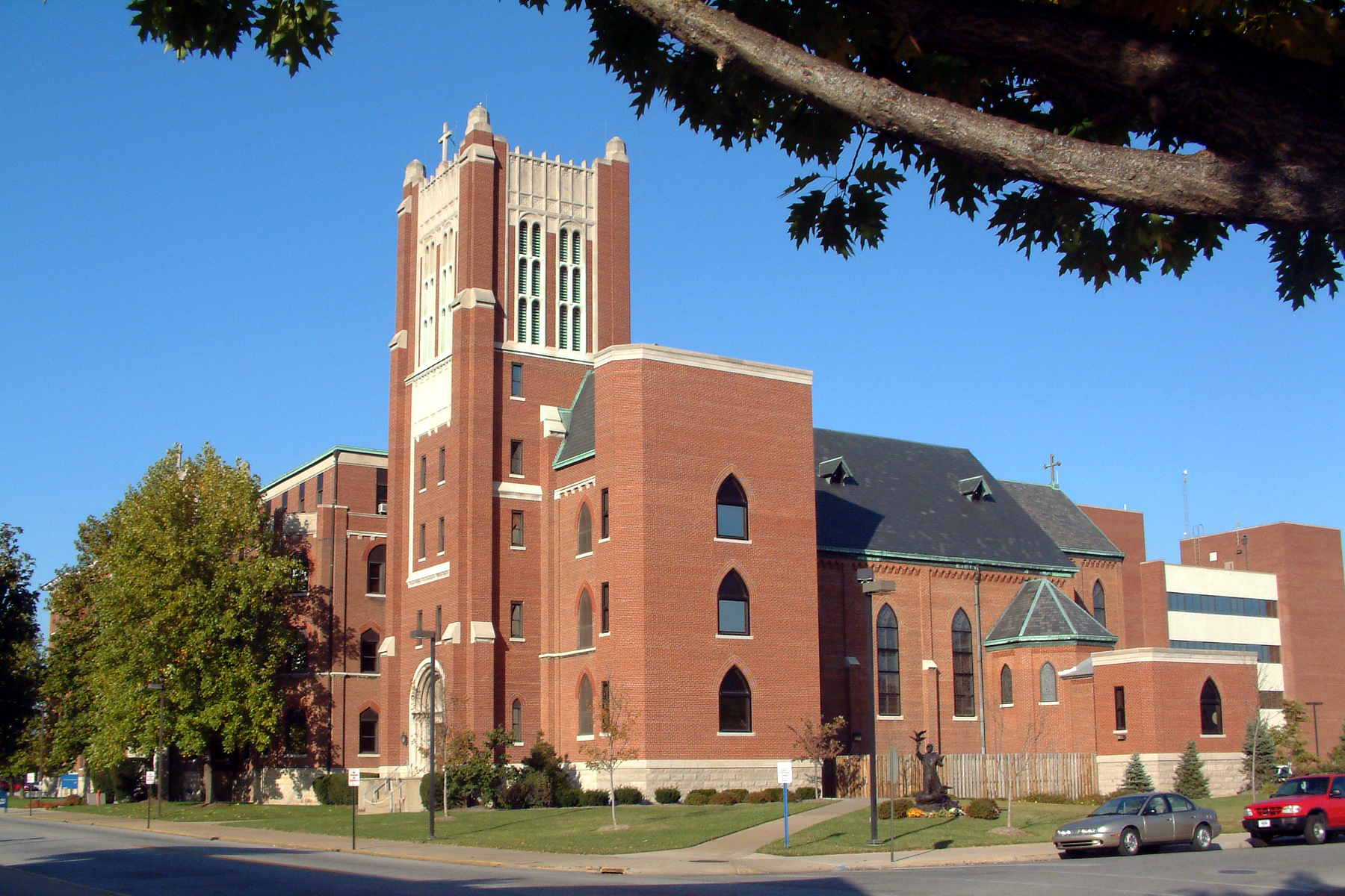 The southwest corner of St. Elizabeth Central hospital (now Franciscan Health Lafayette Central) in Lafayette, Indiana, at the corner of North 14th Street and Tippecanoe Street.